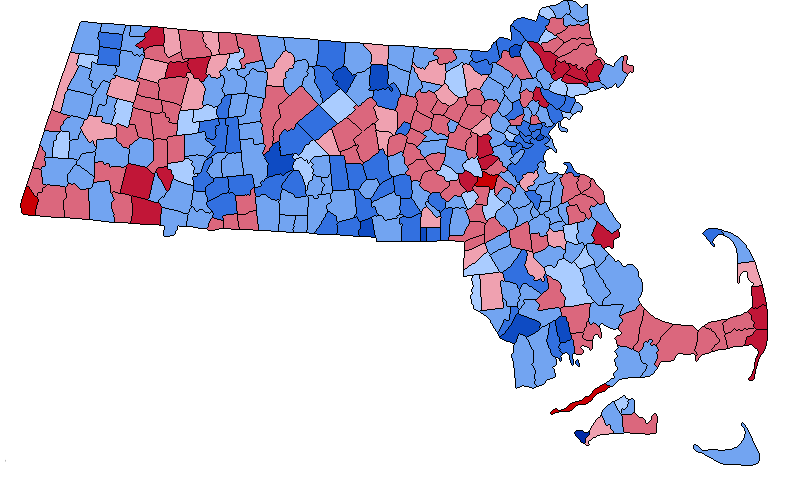 Massachusetts presidential election results by municipality, November 1976